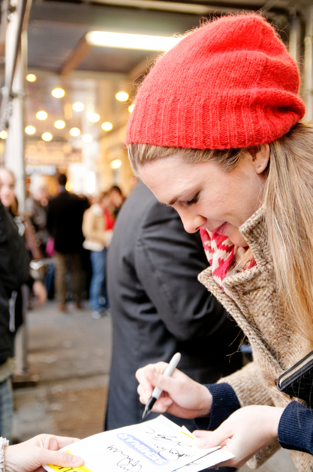 Lily Rabe signing autographs at the stage door of the John Golden Theater, after the matinee performance of Seminar on Saturday 12 November 2011.